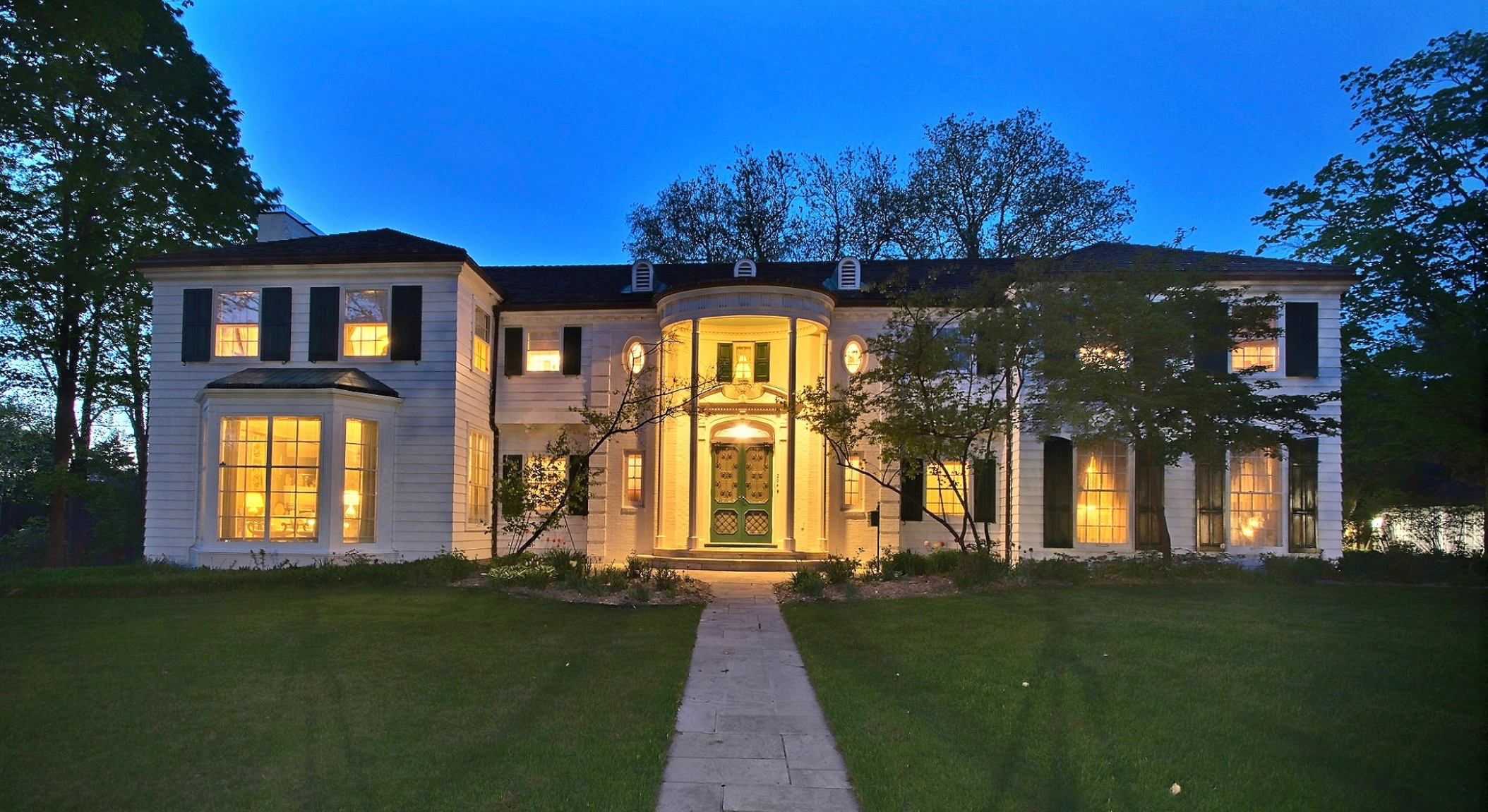 This is a the south elevation of the Albert C. & Ellen H. Neufeld House which was placed on the National Register of Historic Places on June 15, 2018.